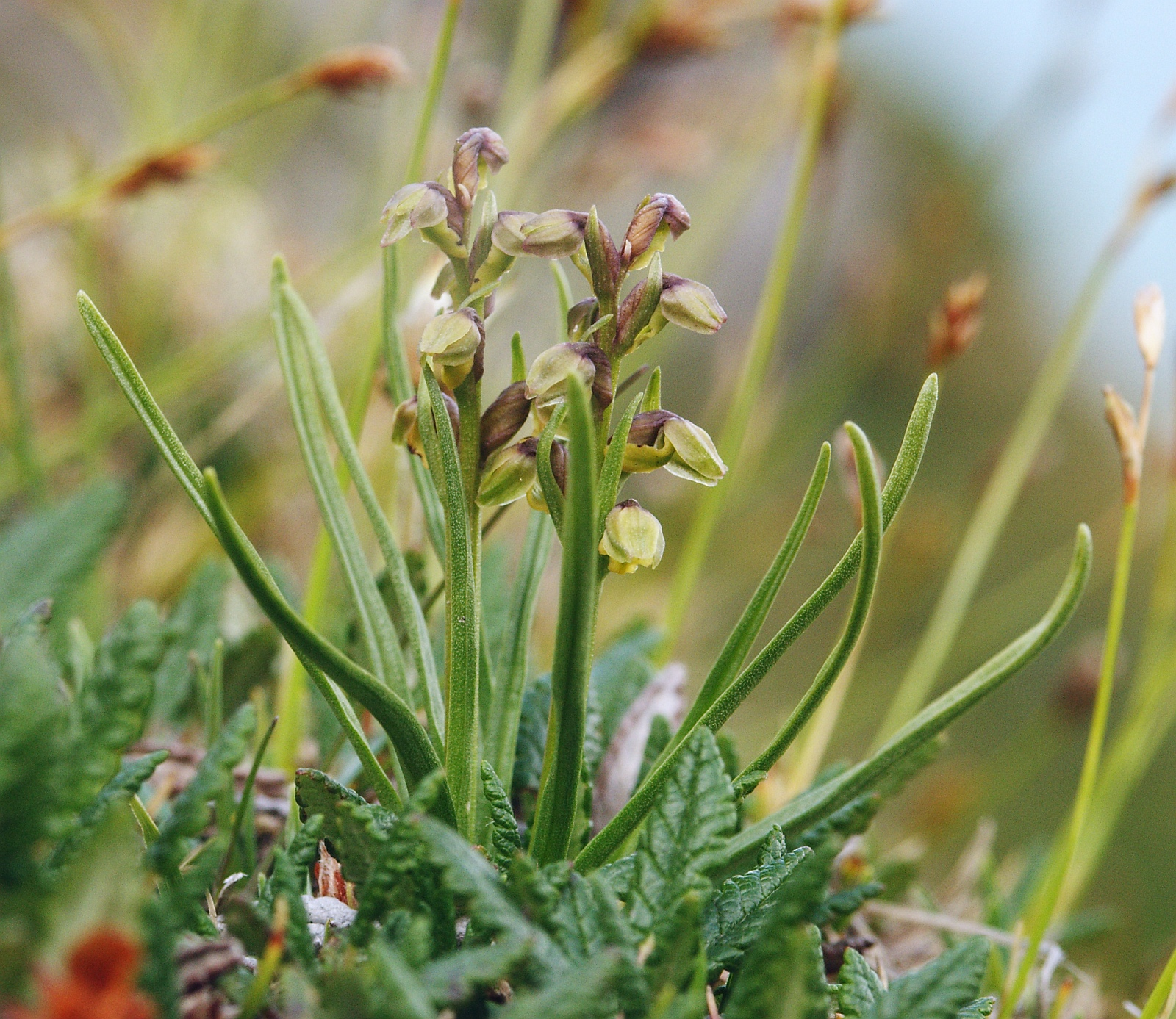 Chamorchis alpina, Tannheimer Tal, Austria